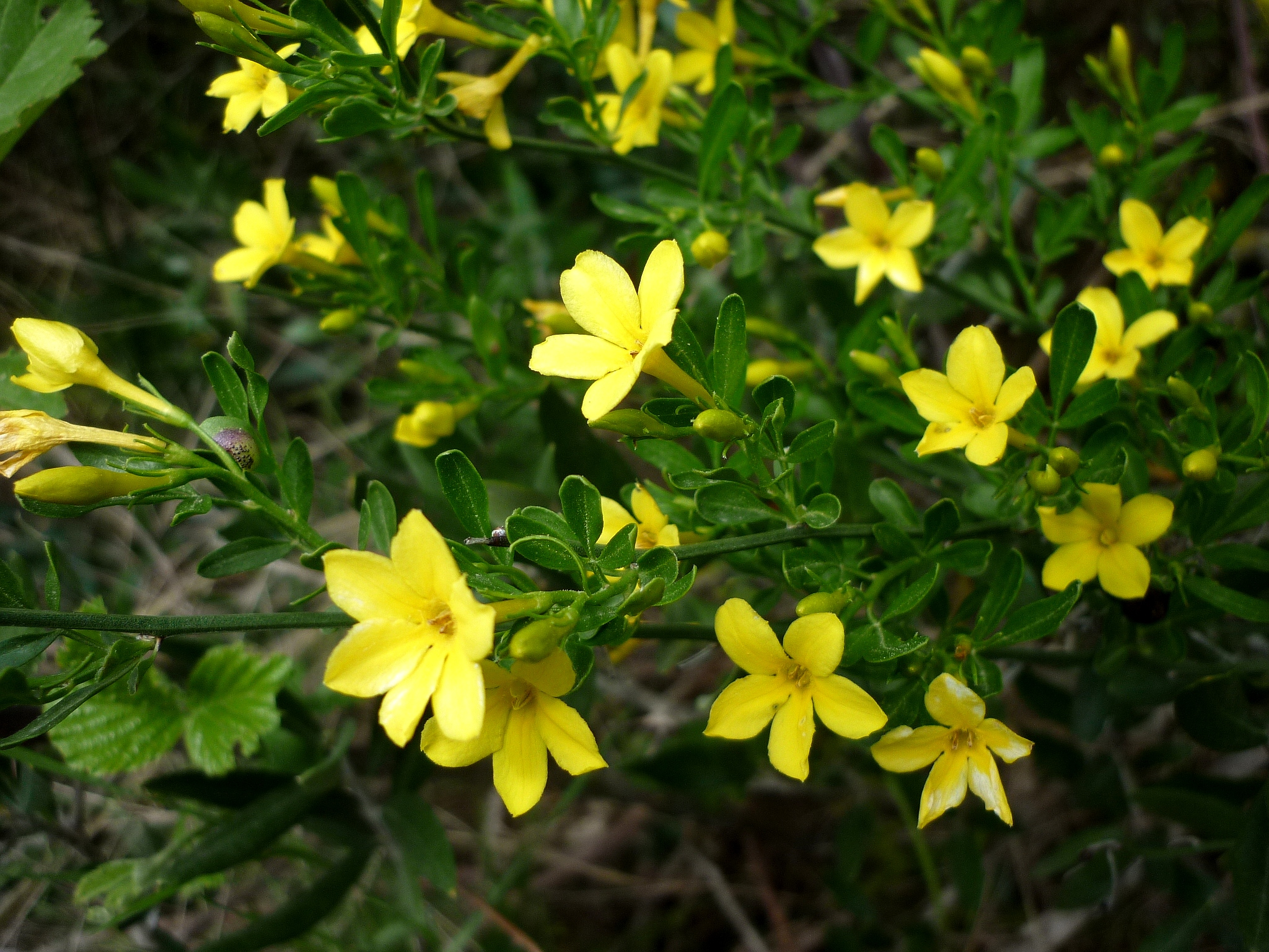 Jasminum fruticans. In Torà (Segarra-Catalunya). To 590 m. altitude